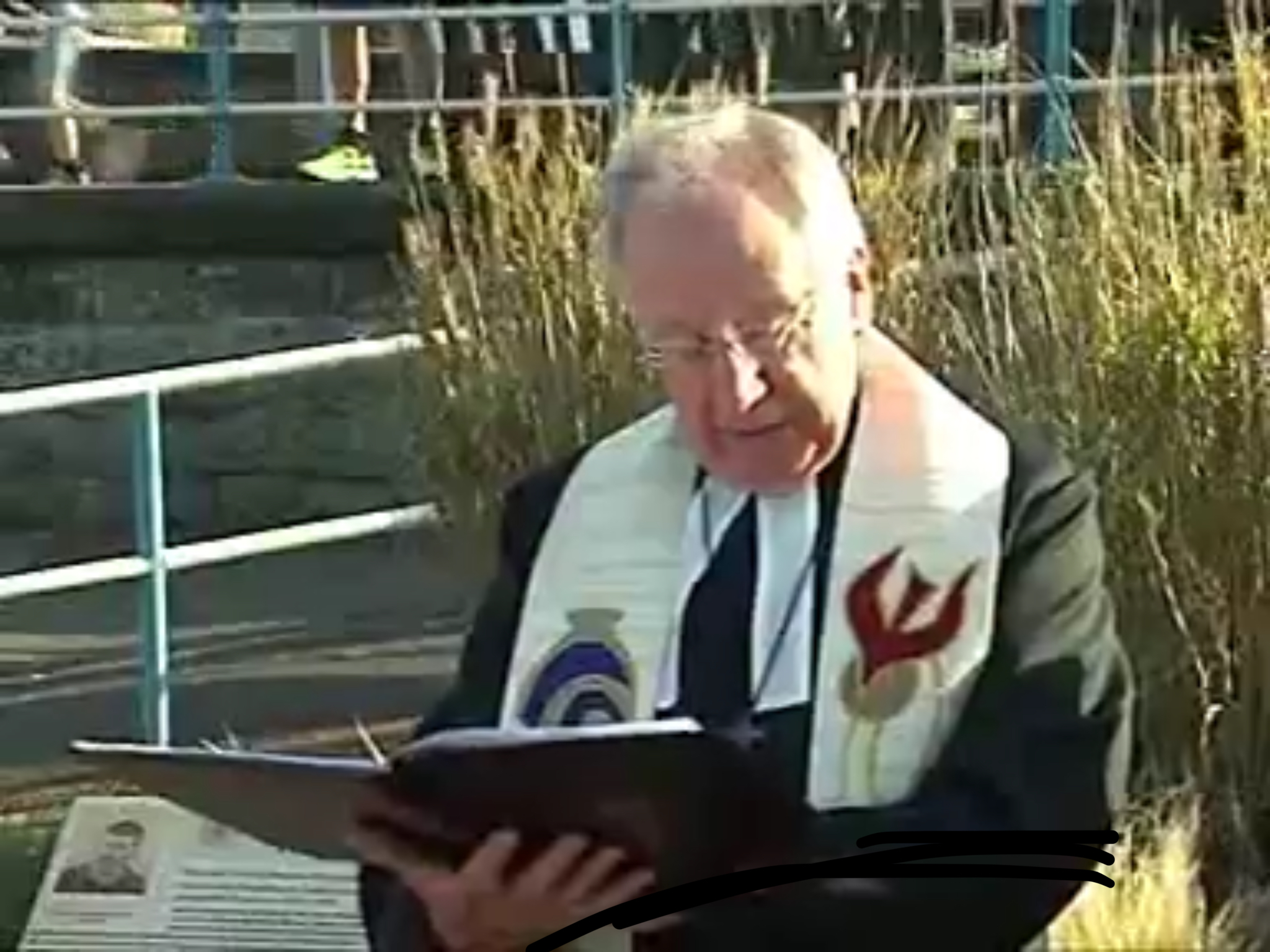 Jesse Handsley Memorial Blessing, Reverend Ian Banks, 8 May 2016